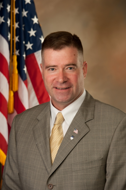 Chris Gibson, Congressman